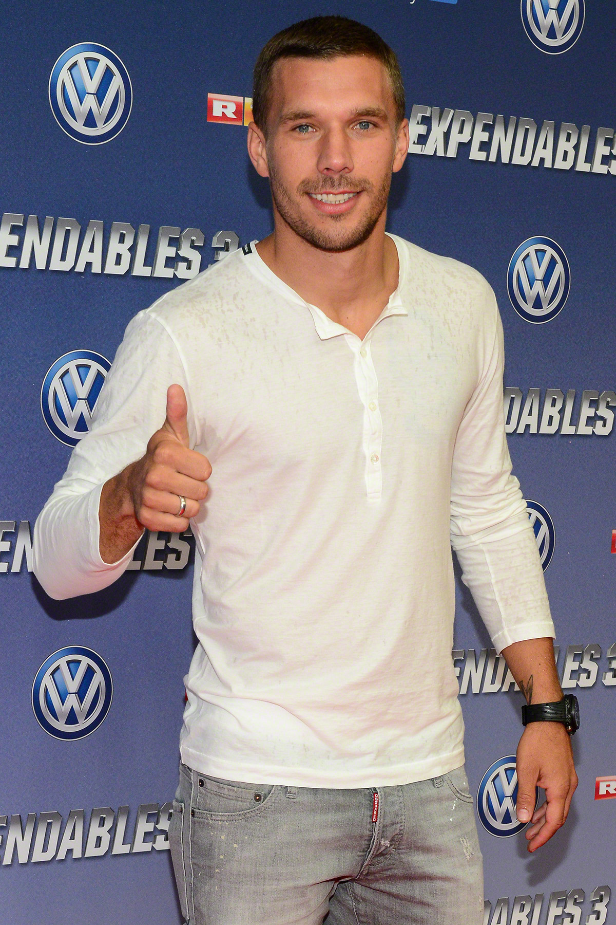 Lukas Podolski attend the German premiere of the film "The Expendables 3" at Residenz cinema on August 6, 2014 in Cologne, Germany.